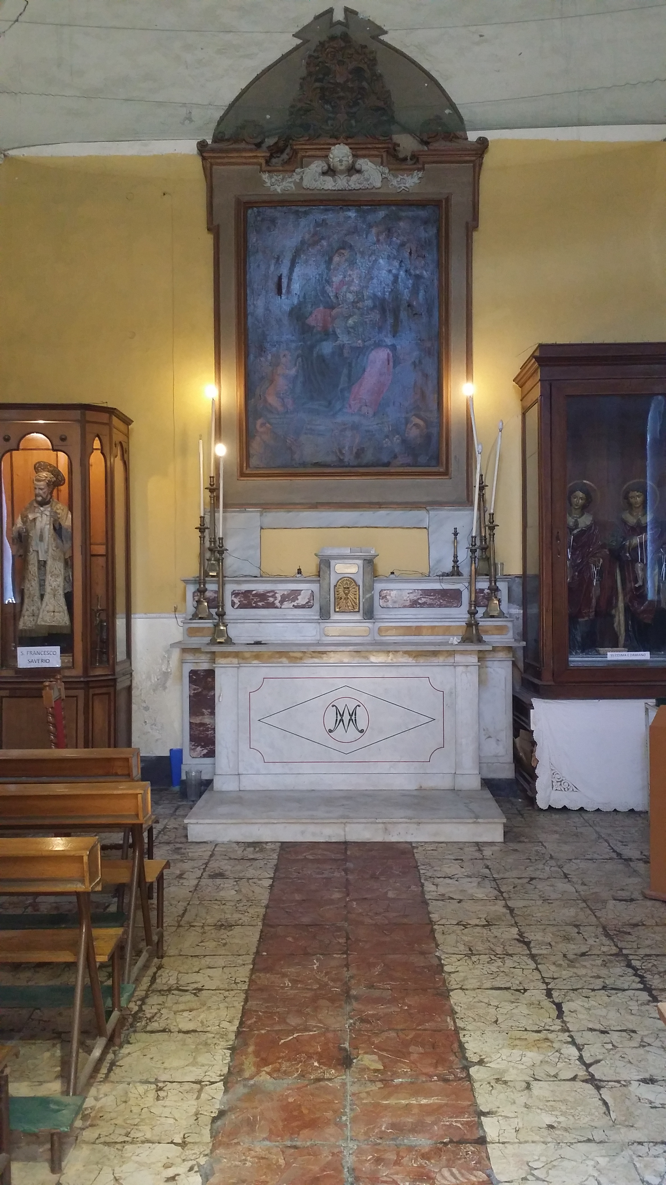 Interior of a part of the chapel of Saints Cosmas and Damian.